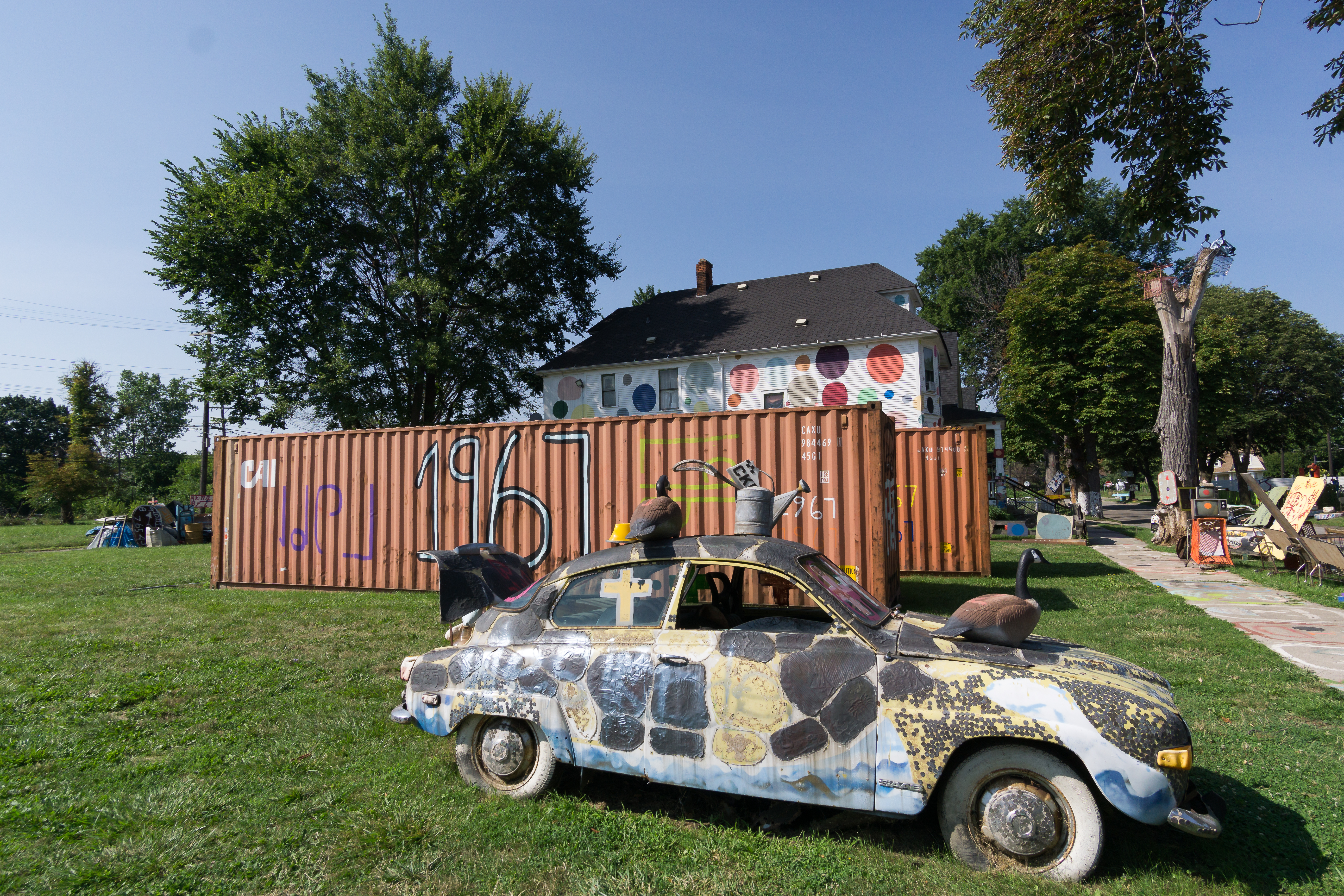 Heidelberg Project